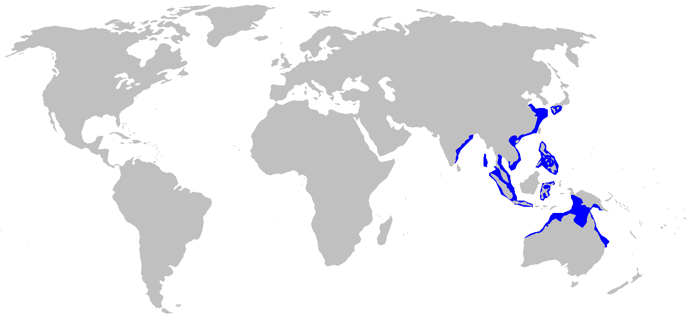 Distribution map for Chiloscyllium punctatum